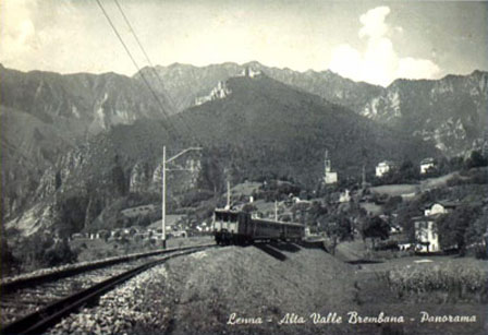 FVB railway in Lenna